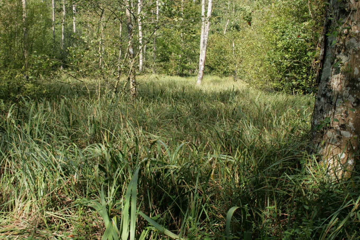 Draved Skov is one of the few Danish natural forests. The soil is very wet in severeal places.